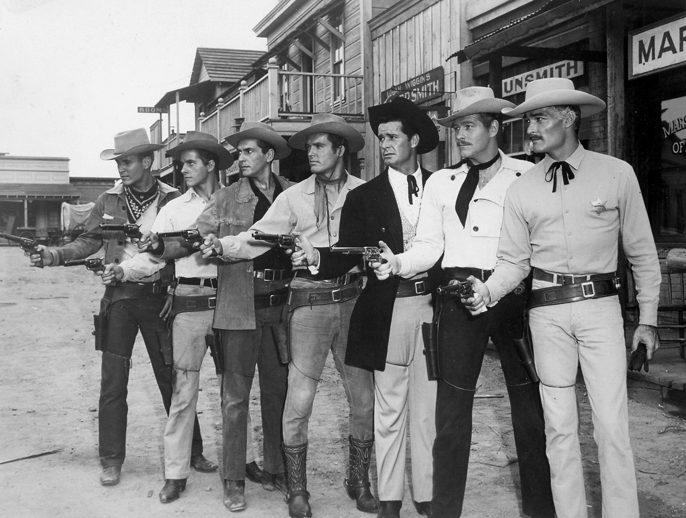 Photo of all the Warner Brothers Studio television western stars who had programs on ABC. From left: Will Hutchins ("Sugarfoot" Brewster-Sugarfoot), Peter Brown (Johnny McKay-Lawman), Jack Kelly (Bart Maverick-Maverick), Ty Hardin (Bronco Laine-Bronco), James Garner (Bret Maverick-Maverick), Wayde Preston (Christopher Colt-Colt .45), John Russell (Dan Troop-Lawman).